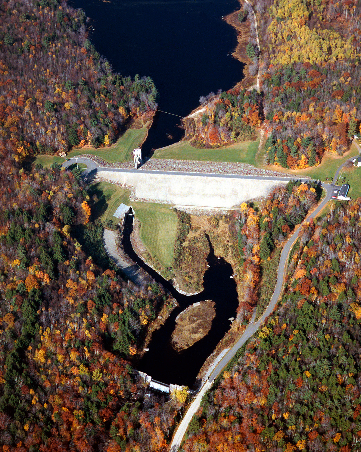 Edward MacDowell Dam and Lake on the Nubanusit Brook near the town of Peterborough in Hillborough County, New Hampshire, USA. The U.S. Army Corps of Engineers constructed the dam for flood control on the brook.